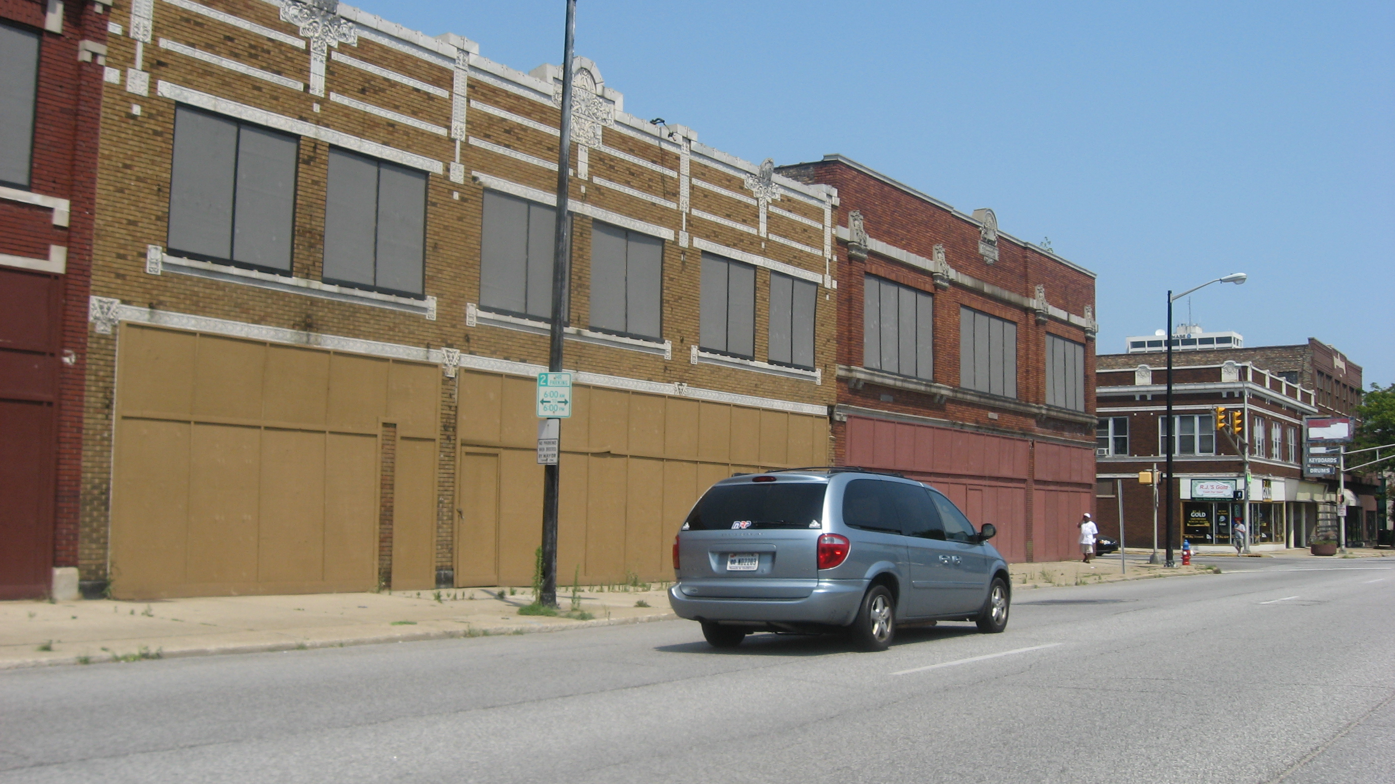 Buildings on the western side of S. Michigan Street (State Road 933) on either side of the Monroe Street intersection in South Bend, Indiana, United States. From left to right, they are: Smith-Alsop Paint Store Building: 507-509 Michigan; Neoclassical architecture; built 1922 Myer-Seeberger Building: 501-505 Michigan; Neoclassical architecture; built 1916 Intersection Whitmer-McNeese Building: 437-439 Michigan; Neoclassical architecture; built 1928 LaSalle Paper Company Building: 425-429 Michigan; Neoclassical architecture; built 1925 All of these buildings are part of the South Michigan Street Historic District, a historic district that is listed on the National Register of Historic Places.